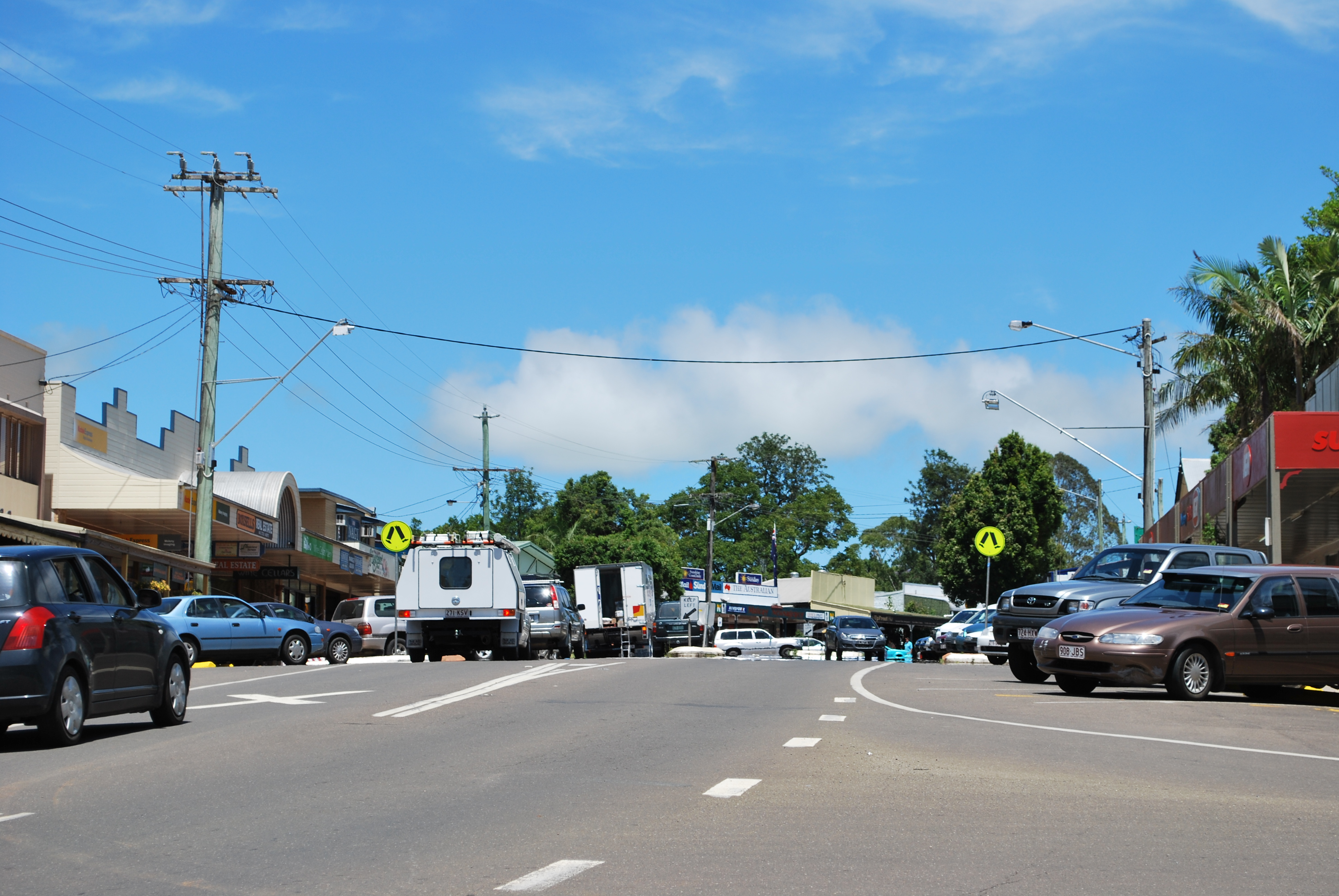 The main street of Maleny, Queensland